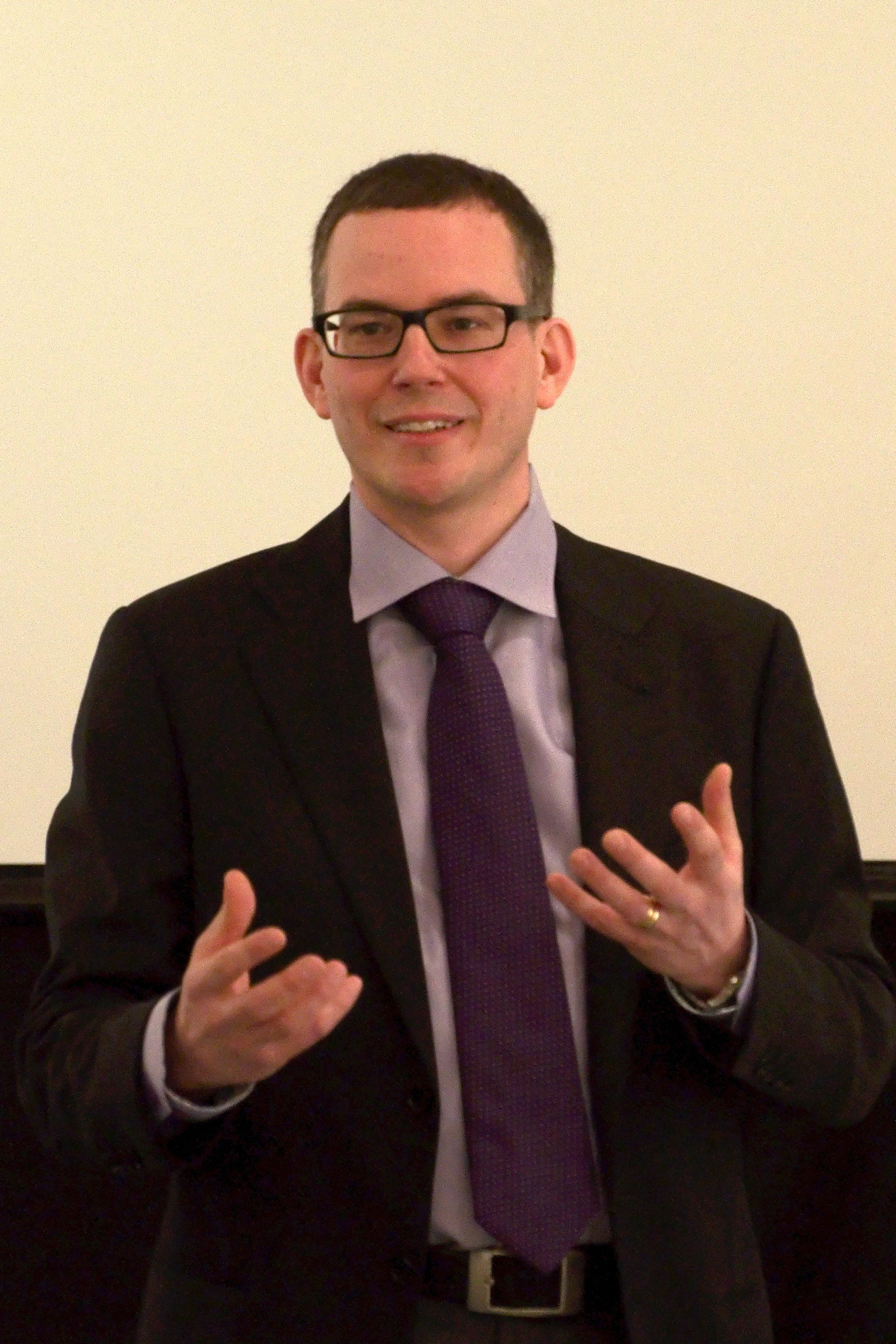 Award of the π-Prize 2010: laureate Ulf Ellervik